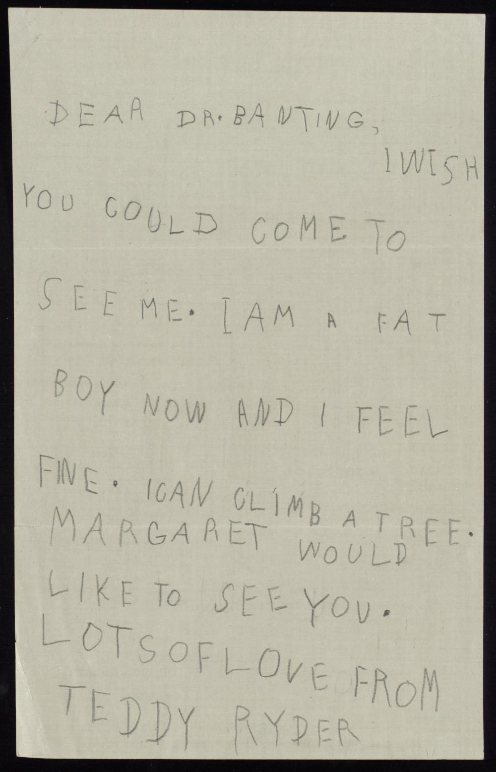 Title: Letter to Dr. Banting ca. 1923 Author: Ryder, Teddy (Theodore) Place/Date: [ca. 1923] Physical Description: 1 leaf 20 x 13 cm. Scope and Content: Autograph letter, printed in pencil, signed by Teddy Ryder and addressed to Dr. Banting. Teddy reports that he is 'a fat boy now.' Collection: Banting Location: MS. COLL. 76 (Banting), Box 8B, Folder 11 Source of Title: Title based on contents of letter. Rights Info: No known restrictions on access Repository: Thomas Fisher Rare Book Library, University of Toronto, Toronto, Ontario Canada, M5S 1A5, Collection: Part of the Discovery and Early Development of Insulin collection